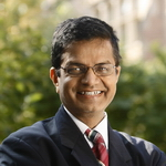 Raj Jain Photo Raj Jain Photo